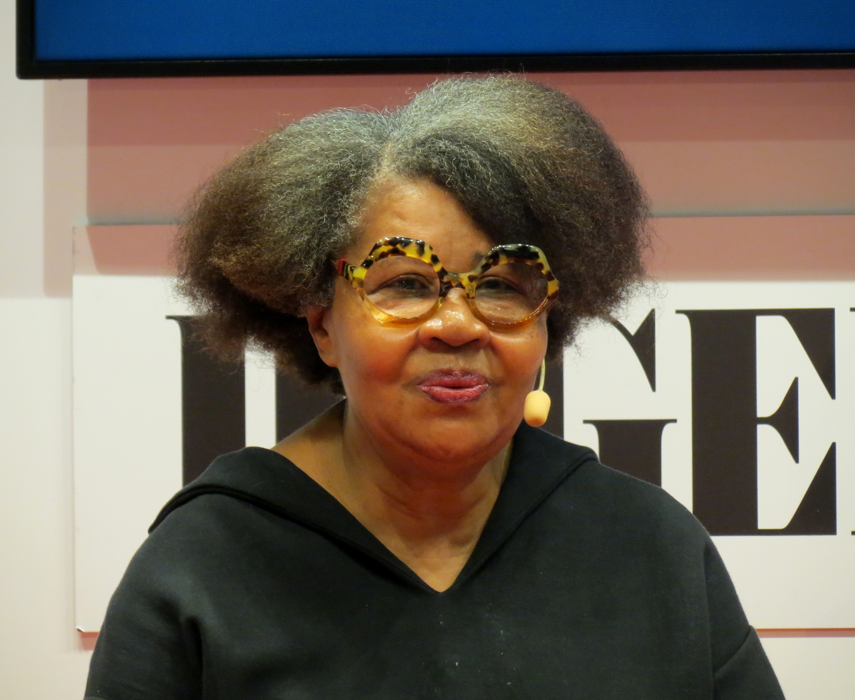 Jamaica Kincaid at the Göteborg Book Fair in September 2019.